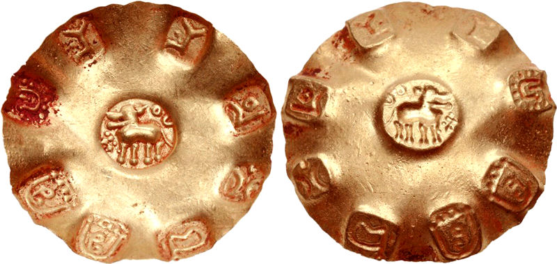 Eastern Chalukya coin. Uncertain ruler. 10th century. AV Pagoda (38mm, 3.79 g). Series of Telegu-Kanarese punchmarks around central punchmark depicting lion standing left / Incuse of punchmarks.